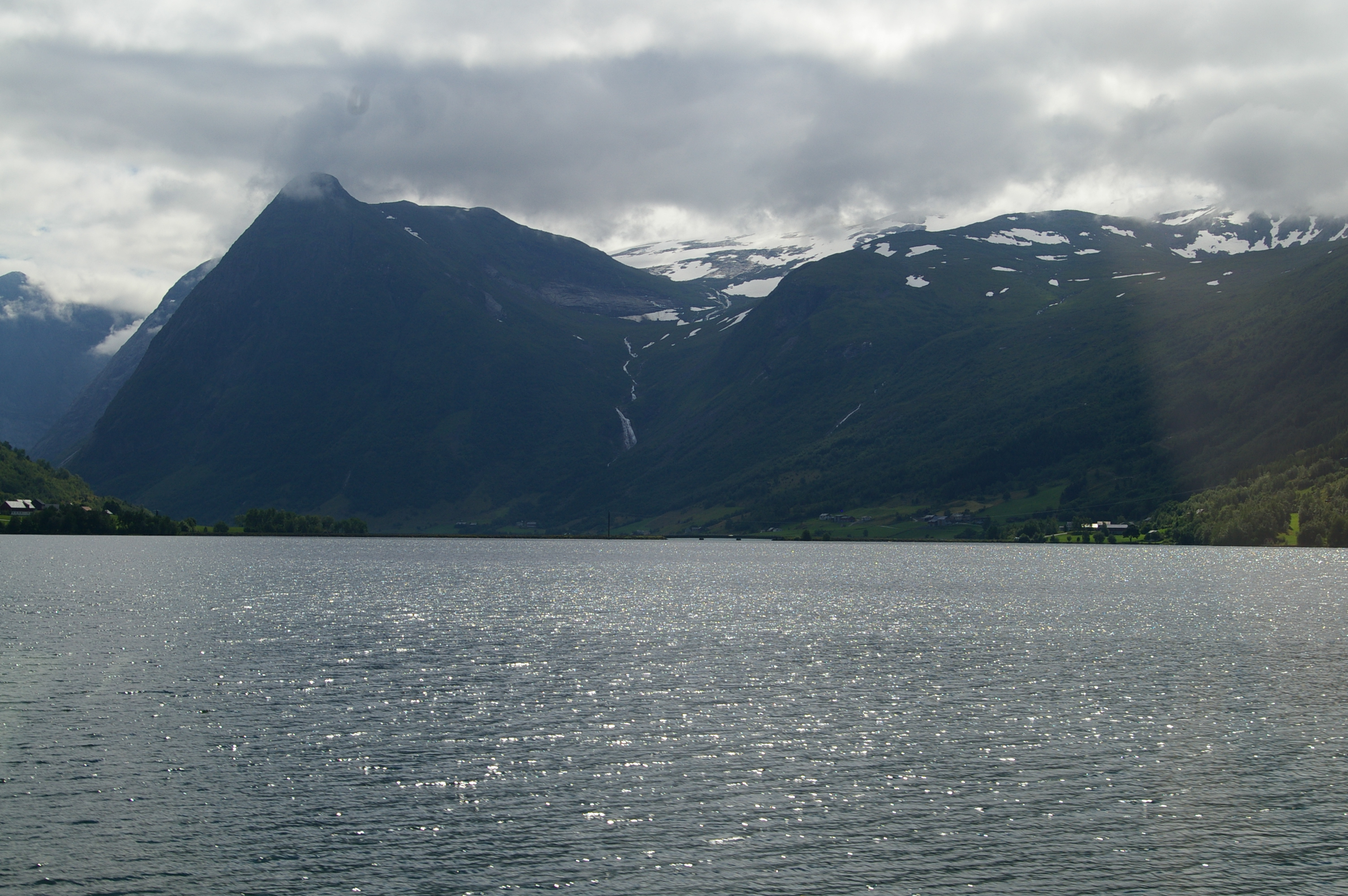 Lake Jølster in Jølster, Sogn og Fjordane, Norway